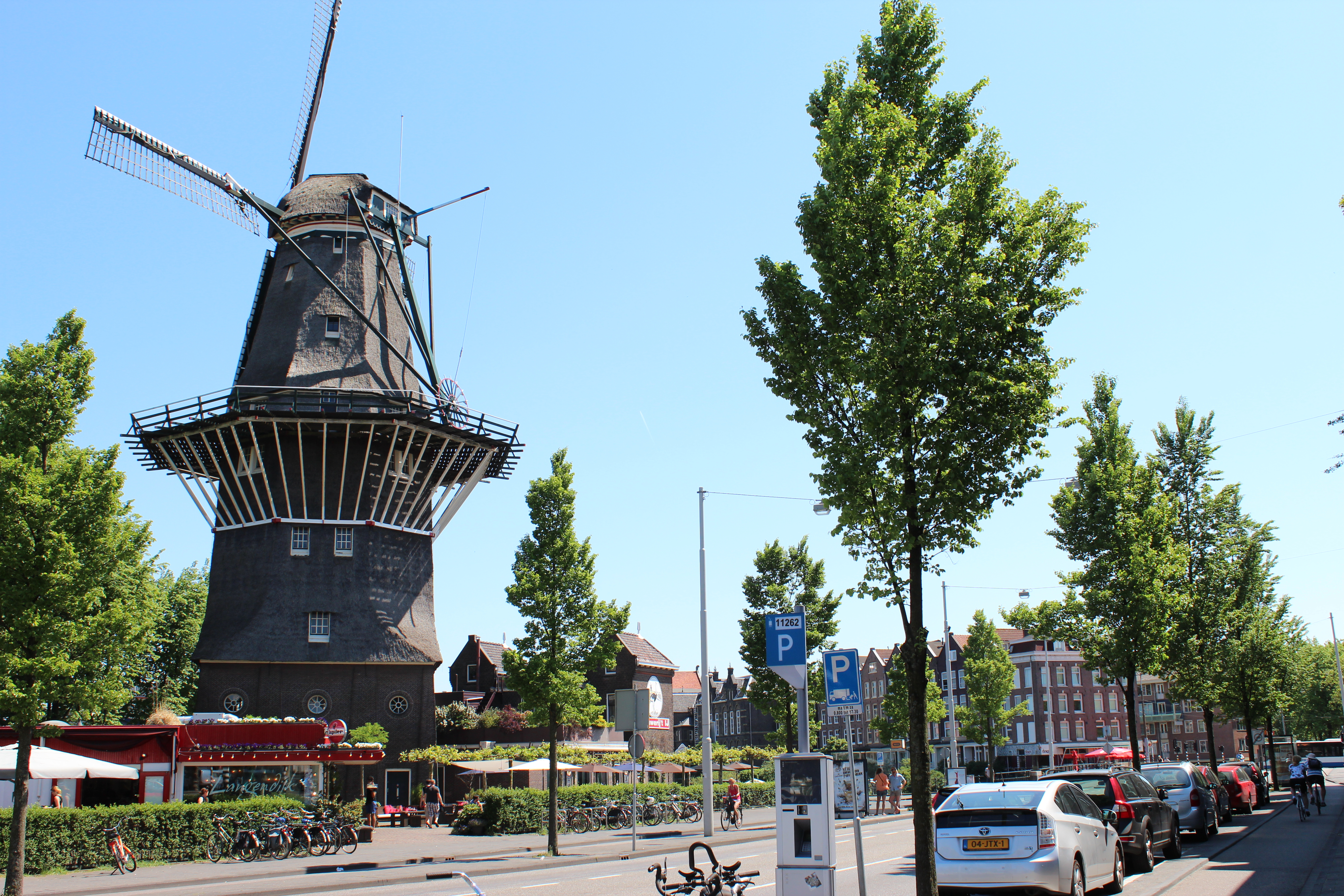 The De Gooyer Windmill was constructed in 1725 and moved to its current location in 1814.